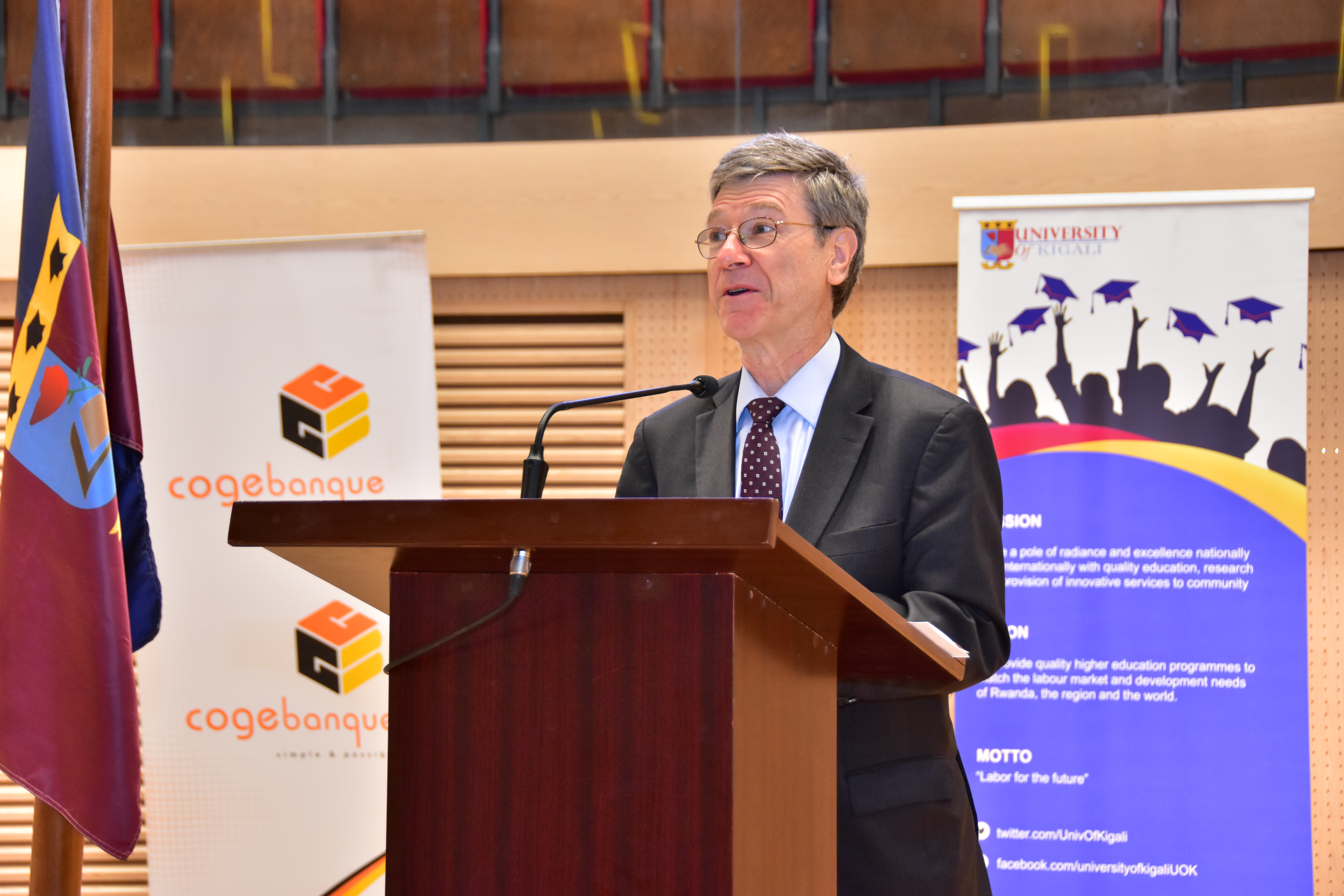 Prof. Jeffrey Sachs, guest of honor during the 2017 UoK Graduation Ceremony